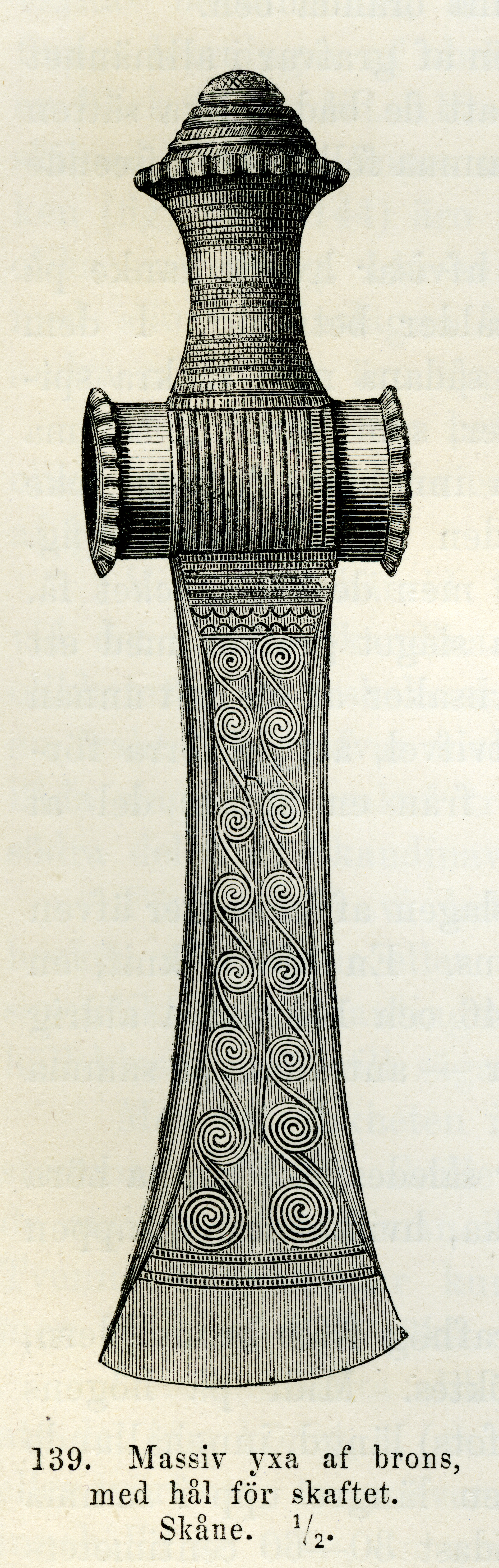 Bronze Age bronze axe from Villie, Lilla Slågarp parish, Skytt hundred, Trelleborg municipality, Skåne, Sweden.